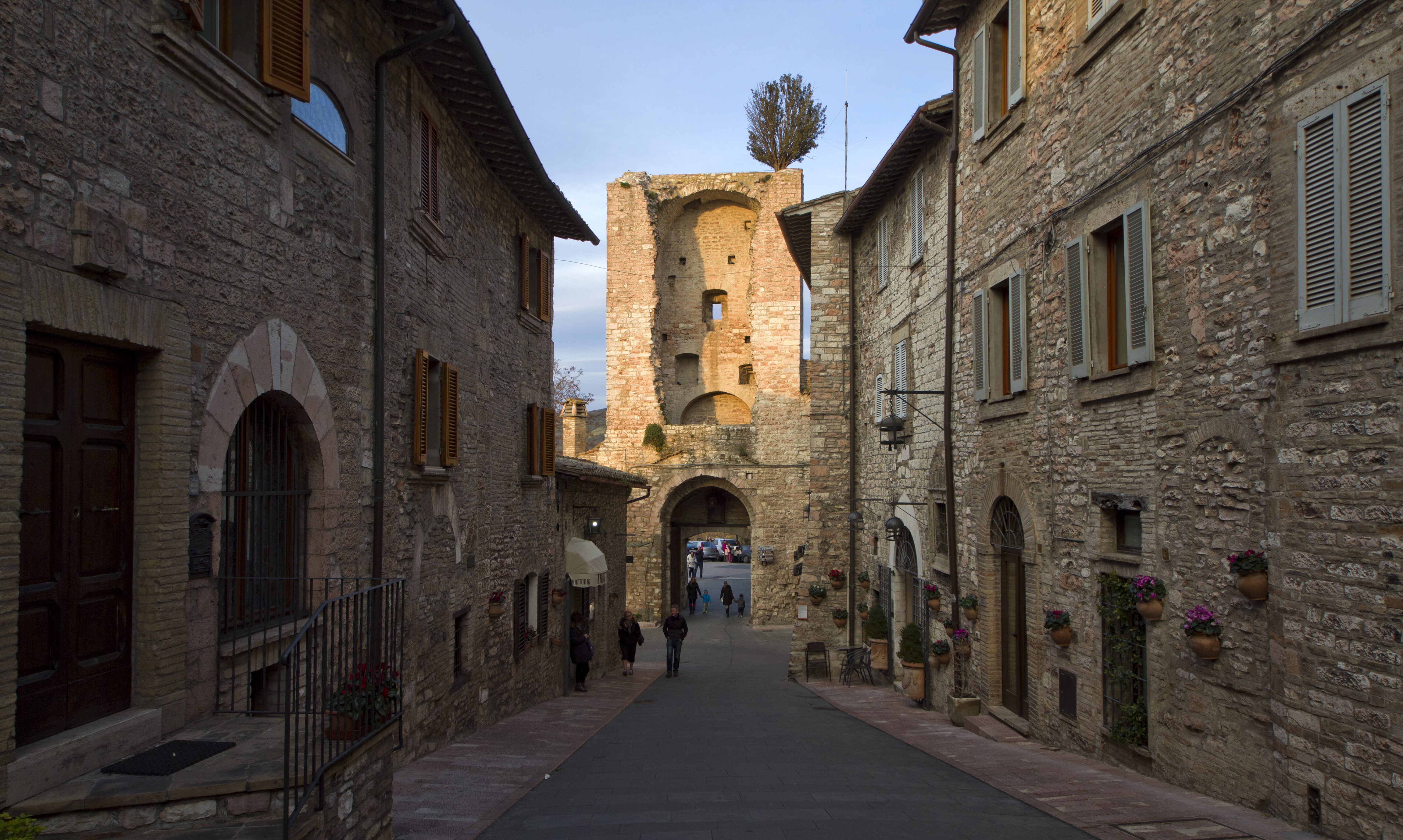 06081 Assisi, Province of Perugia, Italy